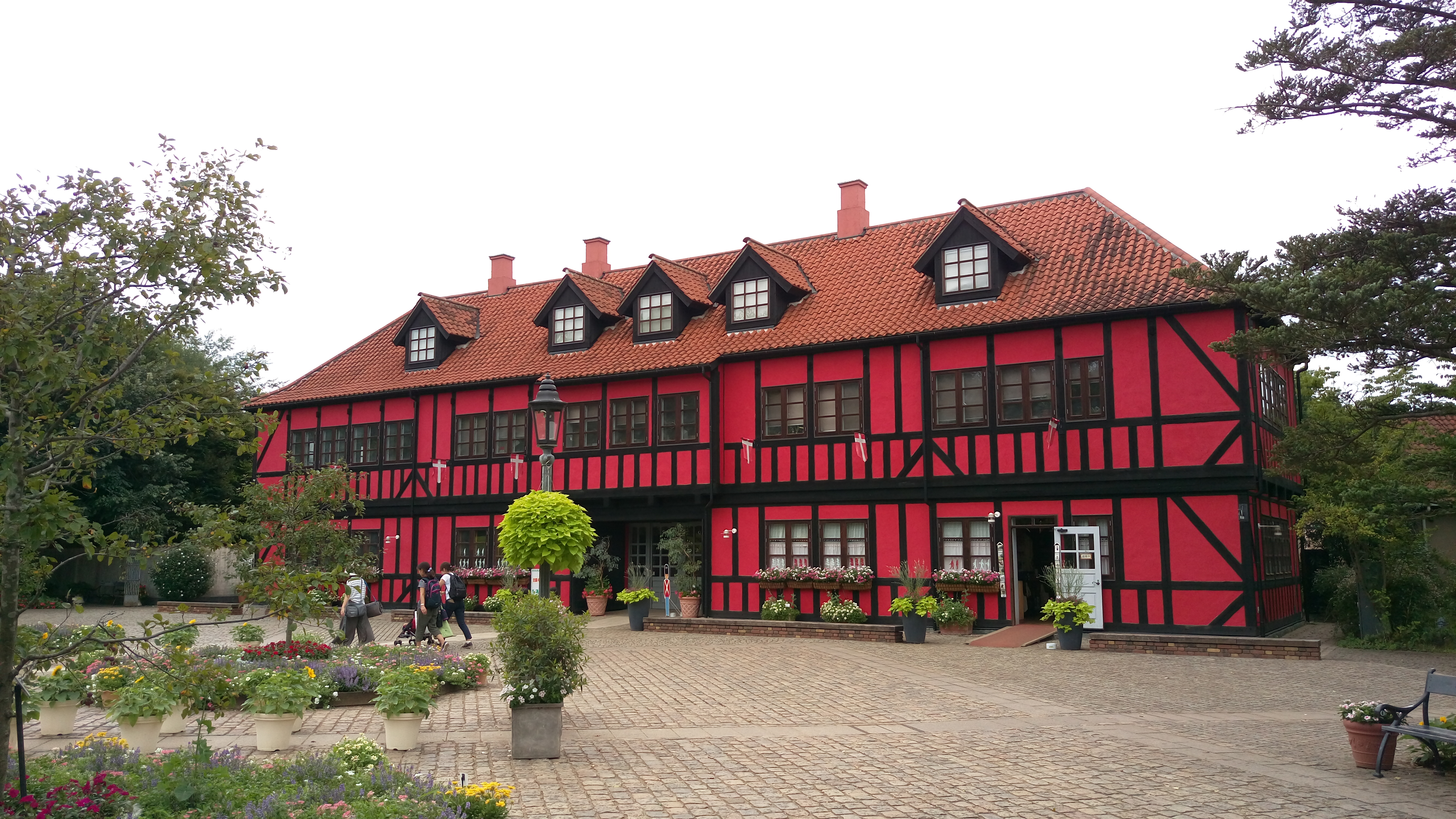 Community center, Funabashi Andersen Park